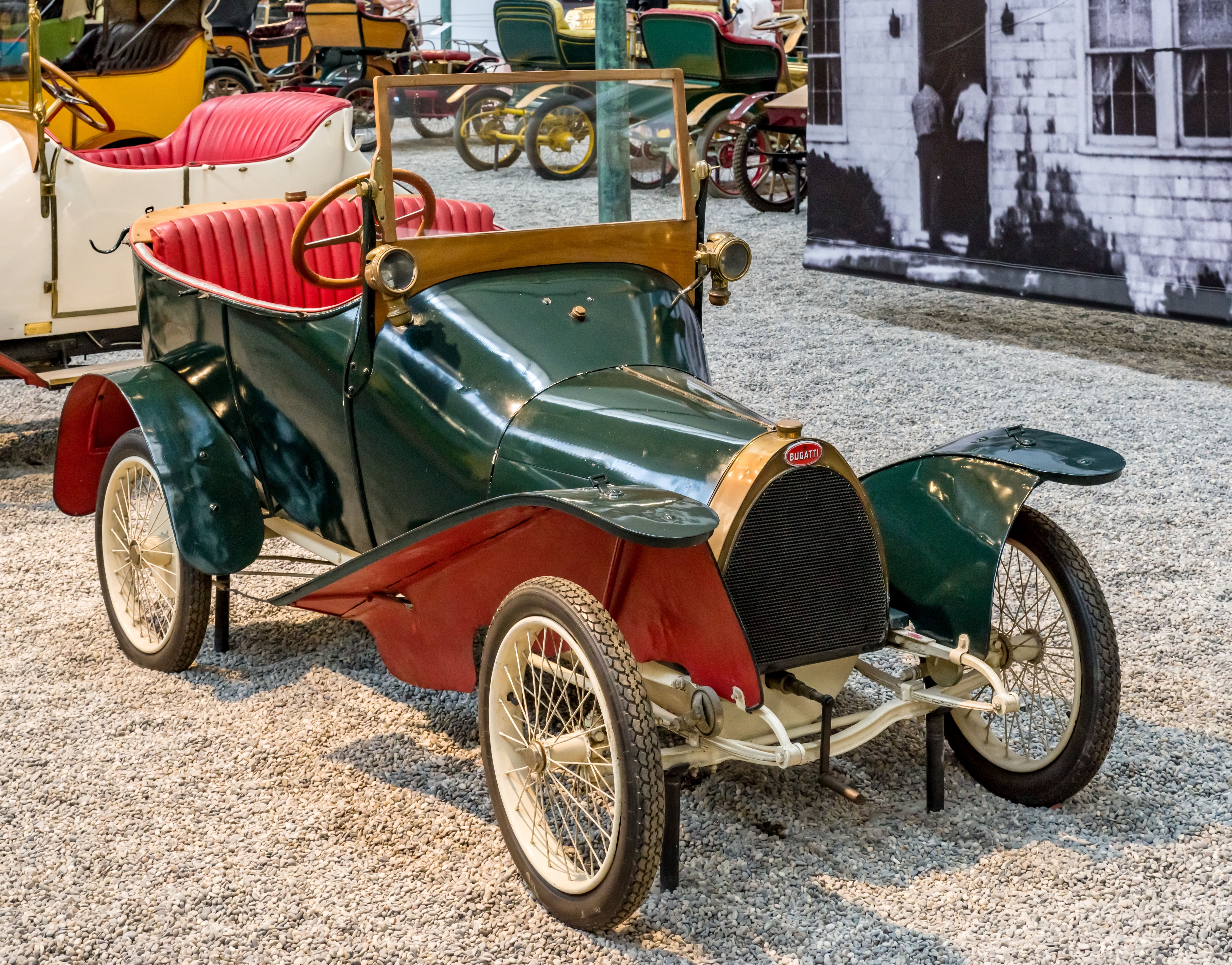 pictures from the Cité de l’Automobile – Musée National – Collection Schlump in Mulhouse, France ptictures from the 10. may 2018